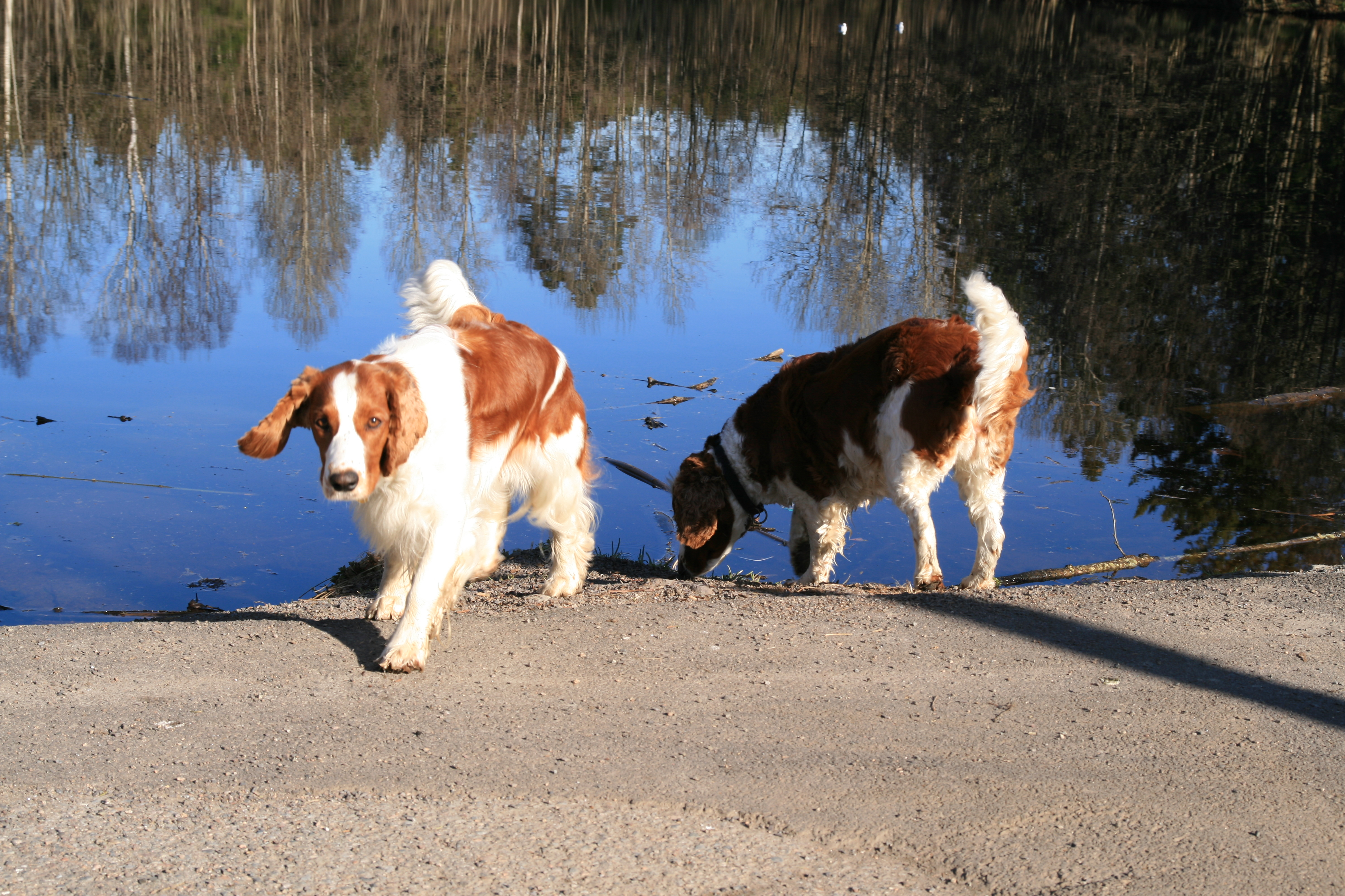 Taxi and Tina, two Welsh Springer Spaniel bird dogs that love water! Taxi (2) har samme slekstre men er noen kull yngre enn Tina (7), men begge fuglehundene er glade i vann og tar seg mer enn gjerne en svømmetur i Femtedammen.